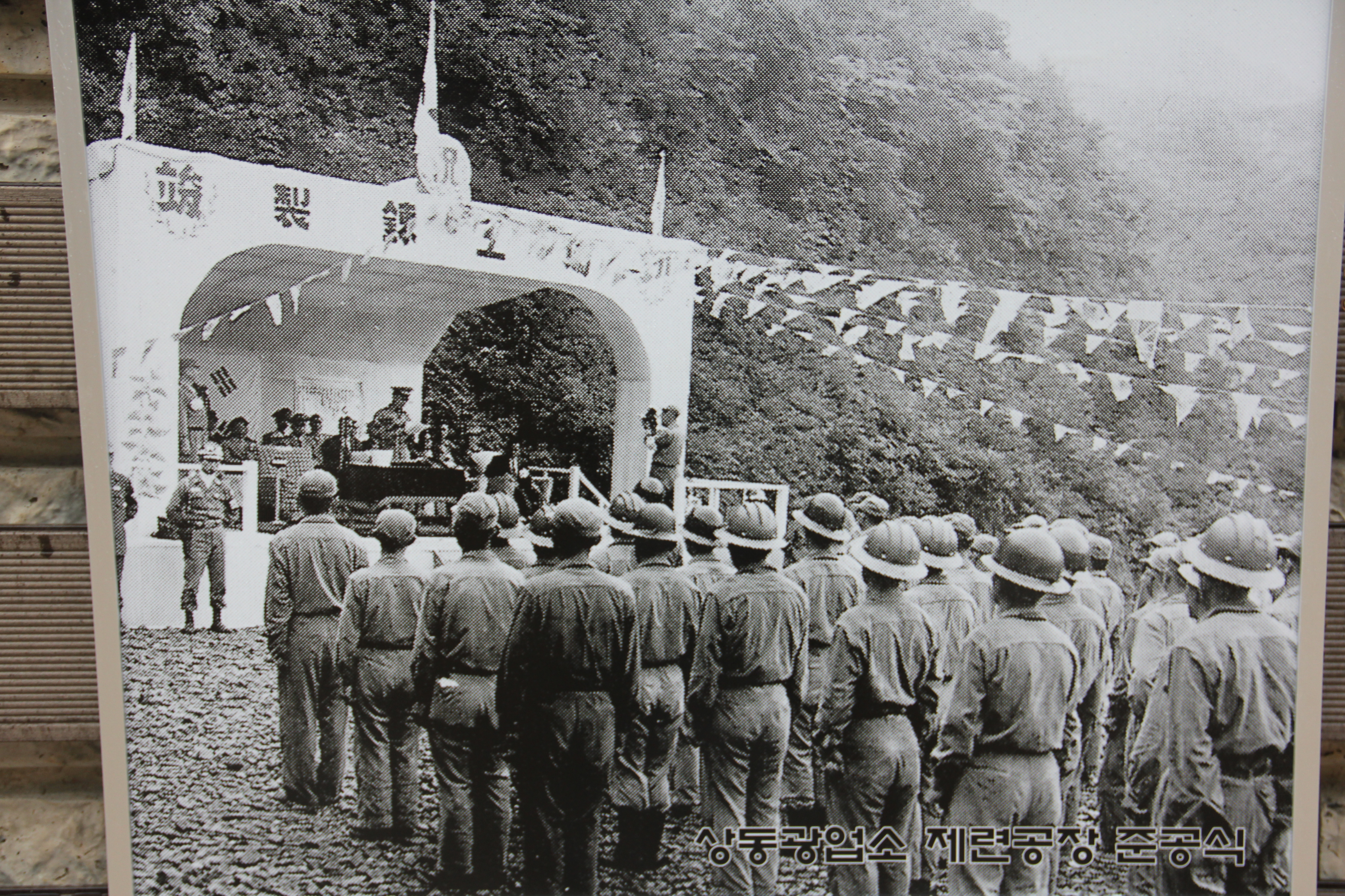 Korea Tunsten Mining Corporation built and established its APT Plant in Sangdong in 1960. The employees of KTMC were lined up for the ceremony.